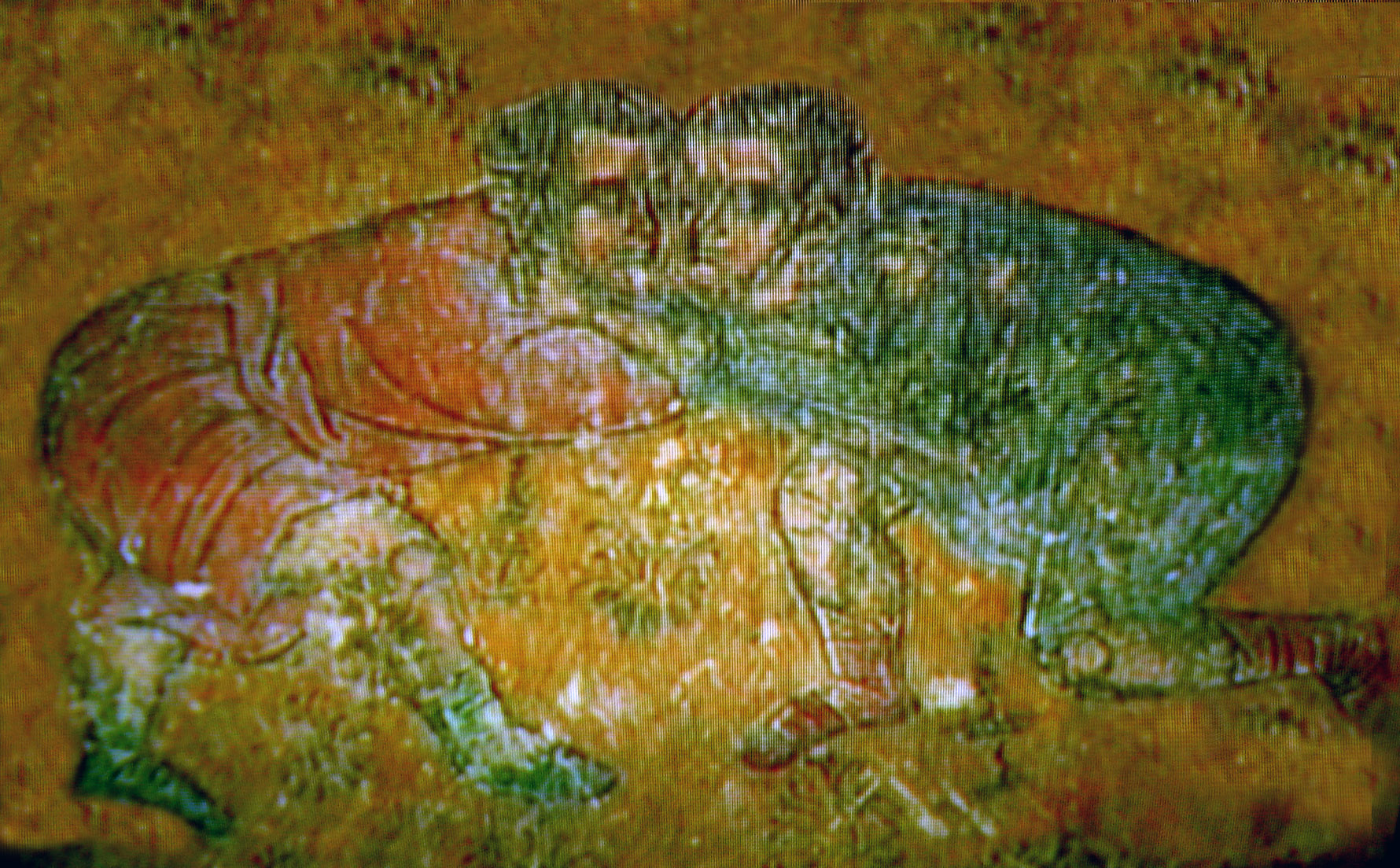 Georgian wrestling